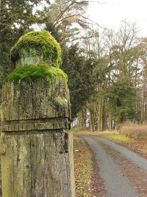 Old Gatepost to Newton Hall. On the other gatespost is a warning to anyone venturing up this drive.